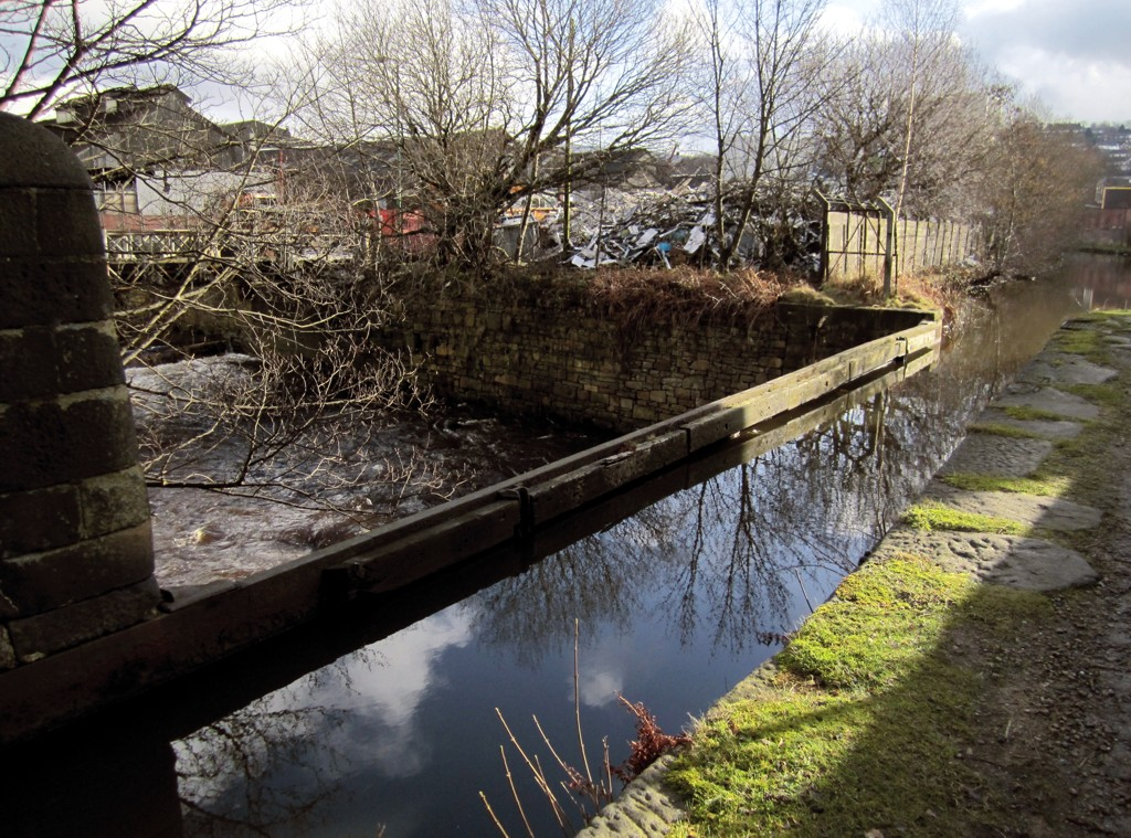 Benjamin Outram's cast iron aqueduct (c1801) on the Huddersfield Narrow Canal at Stalybridge